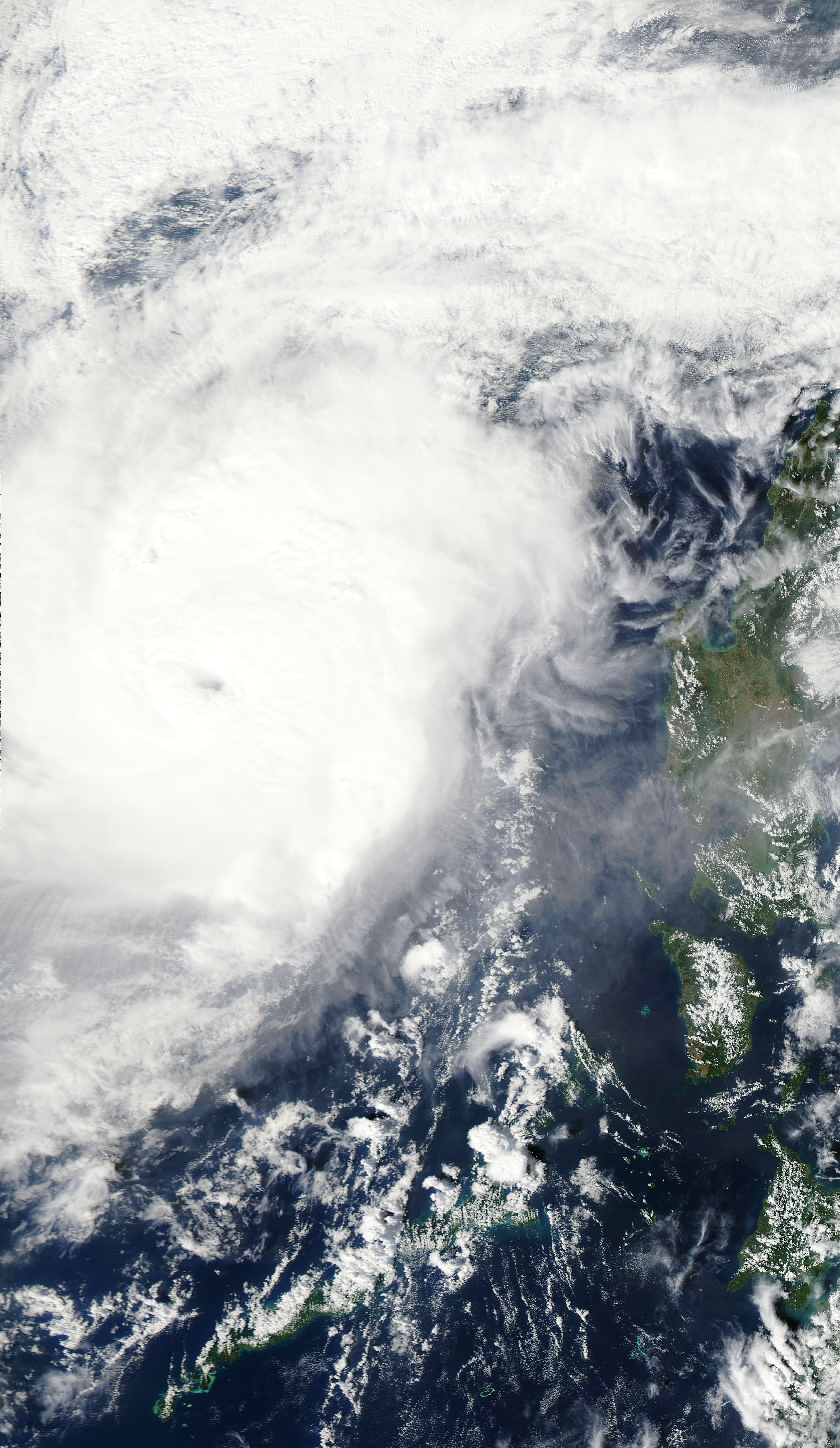 Typhoon Bopha, intensifying into a category 1 typhoon on December 7, 2012, in the south china sea.